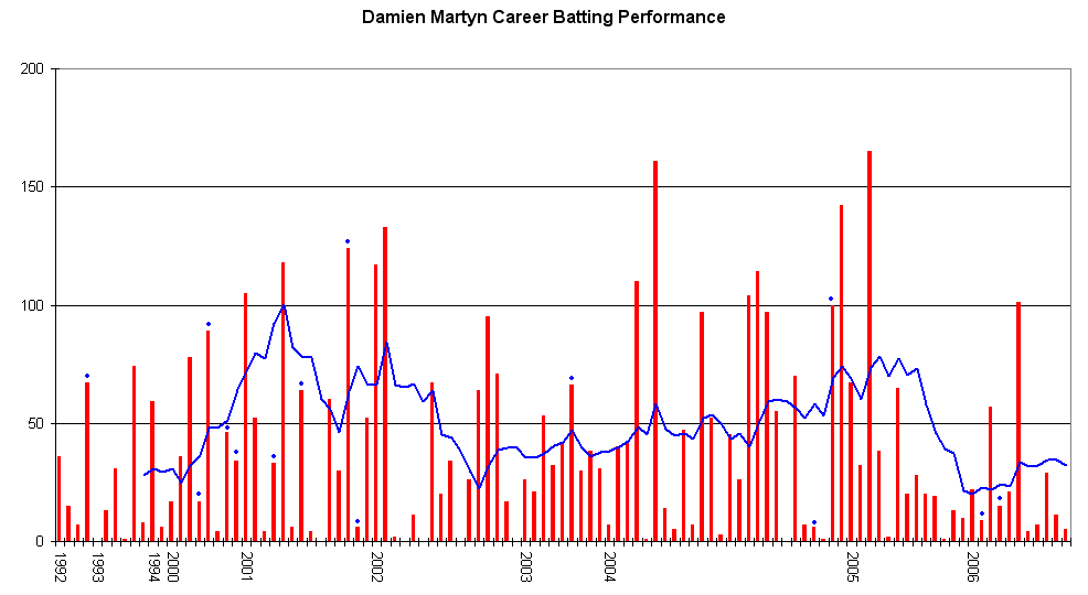 This graph details the Test Match performance of Damien Martyn. It was created by Raven4x4x. The red bars indicate the player's test match innings, while the blue line shows the average of the ten most recent innings at that point. Note that this average cannot be calculated for the first nine innings. The blue dots indicate innings in which Martyn finished not-out. This graph was generated with Microsoft Excel 2002, using data from Cricinfo and .au.